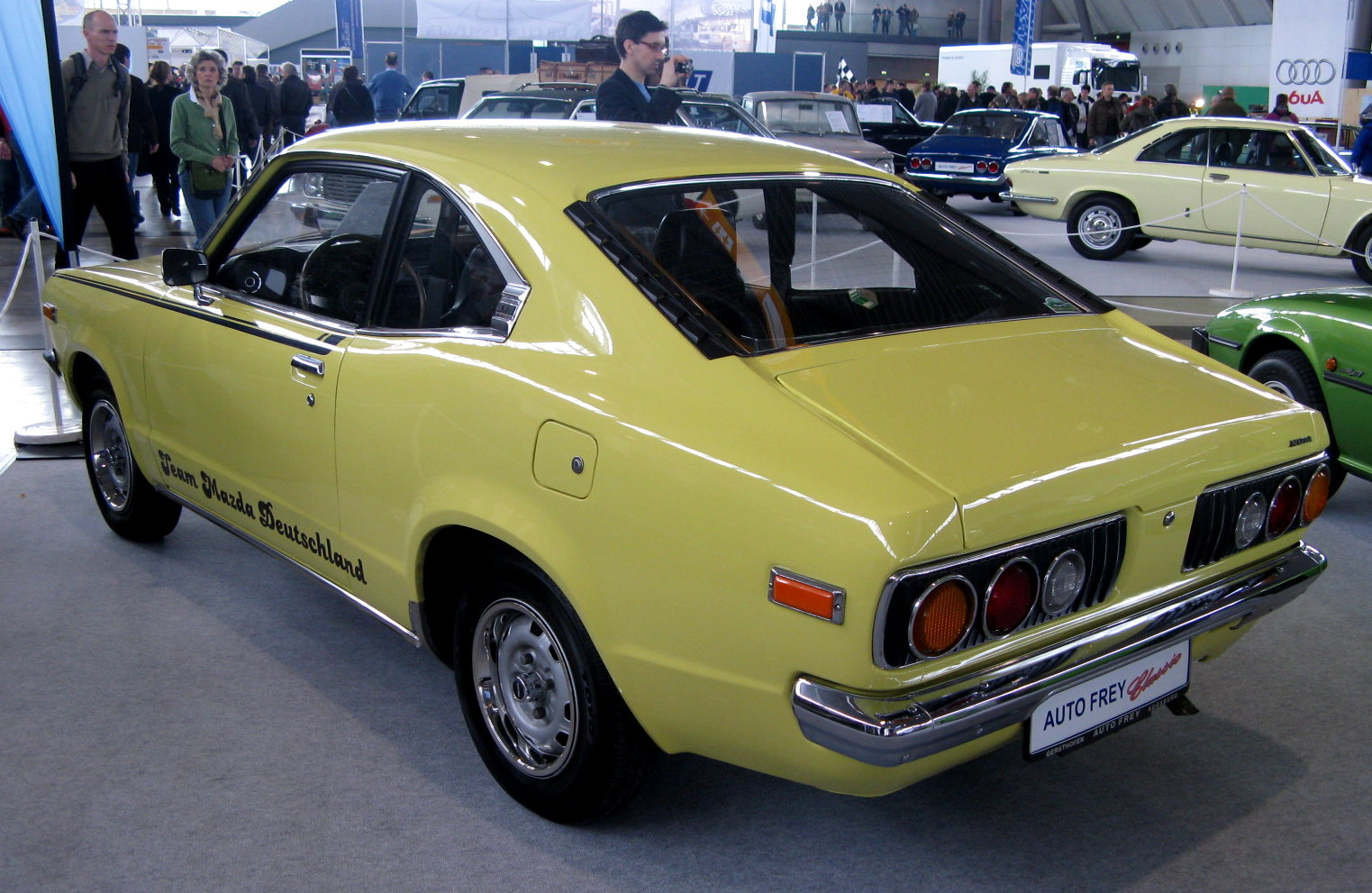 1977 Mazda RX-3